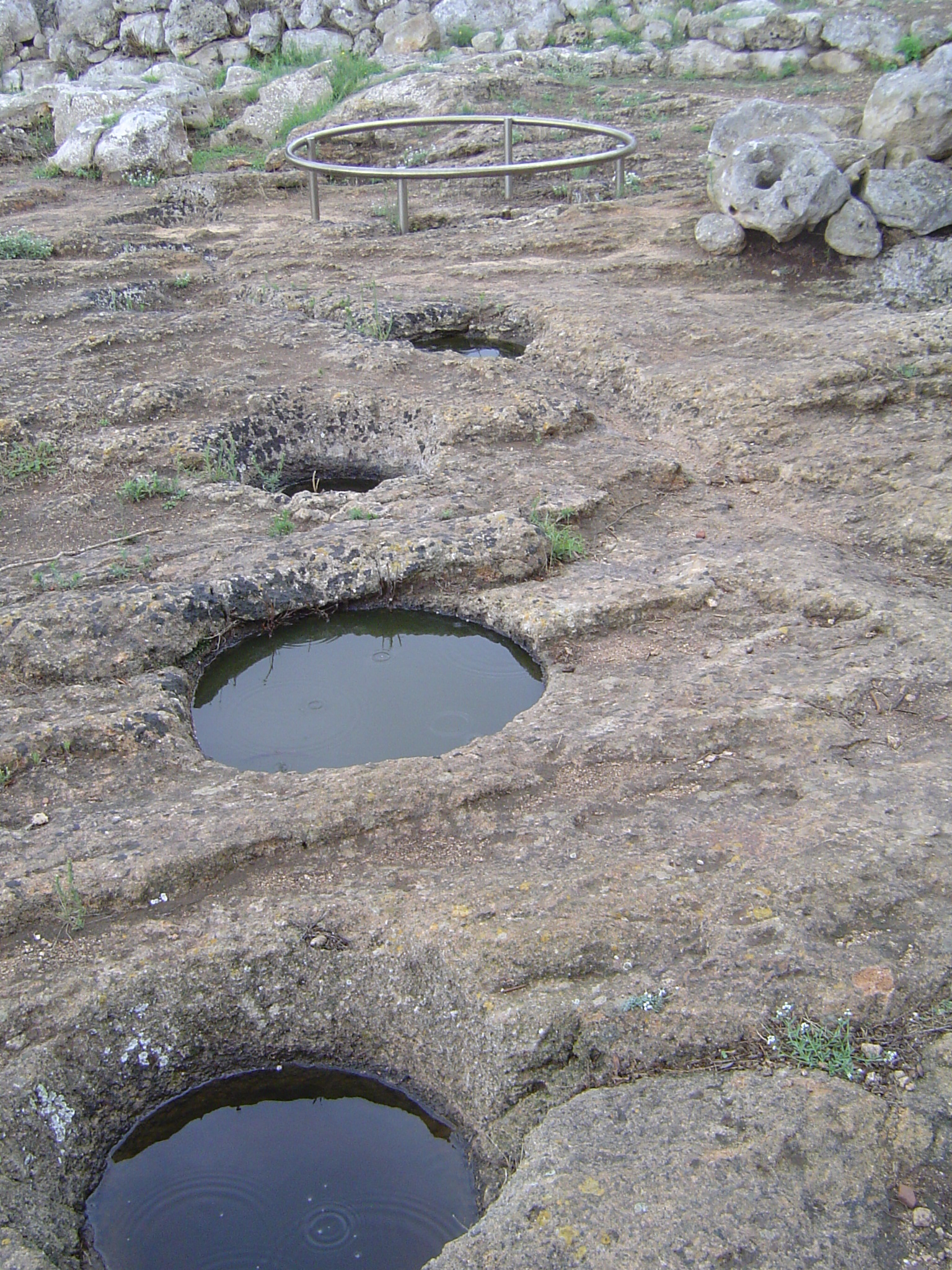 System of collection, filtration and storage of water of the talaiòtic period in Torre d'en Galmés (Menorca).